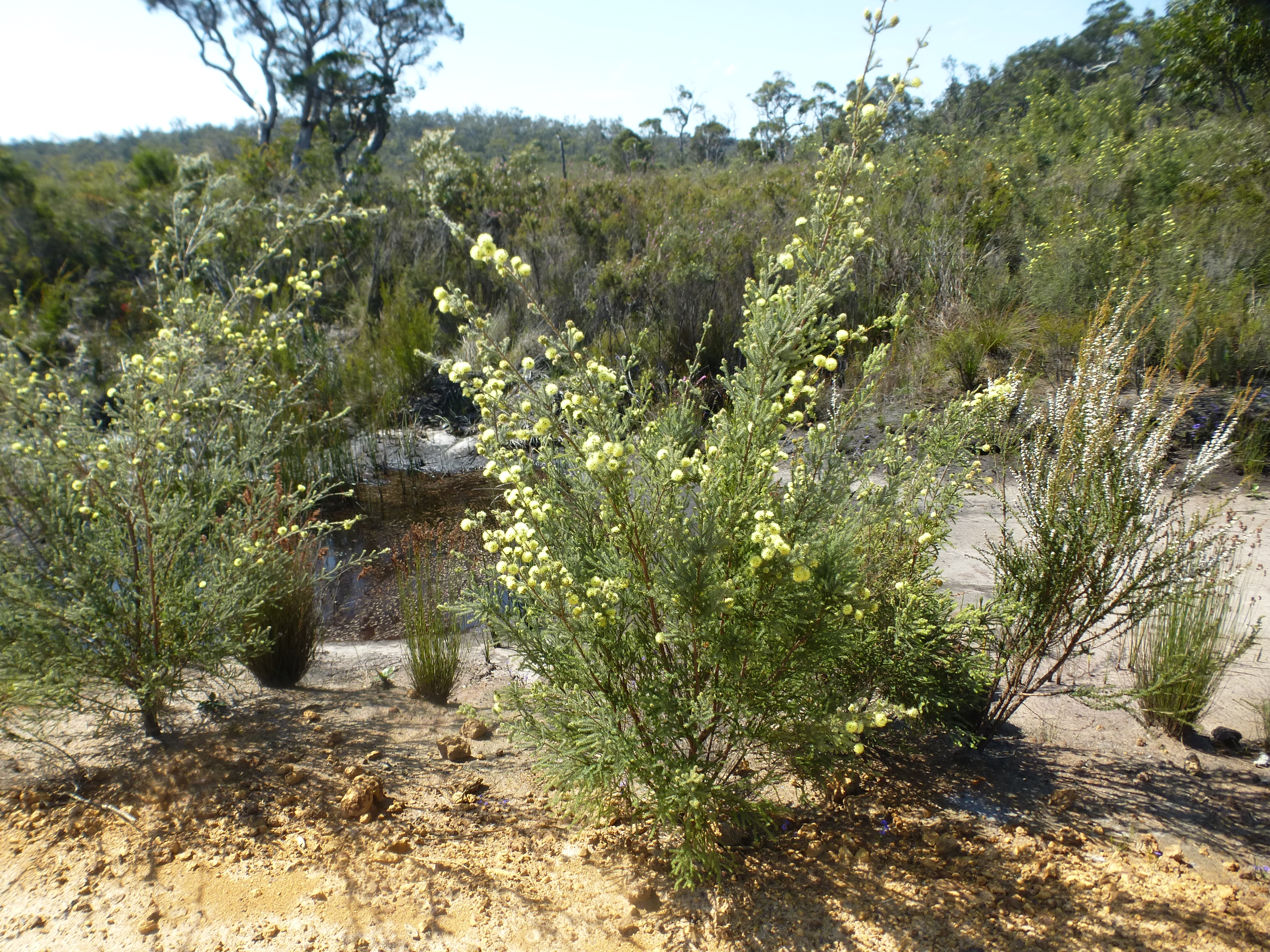 Kunzea ericifolia growing in Mount Lindesay National Park